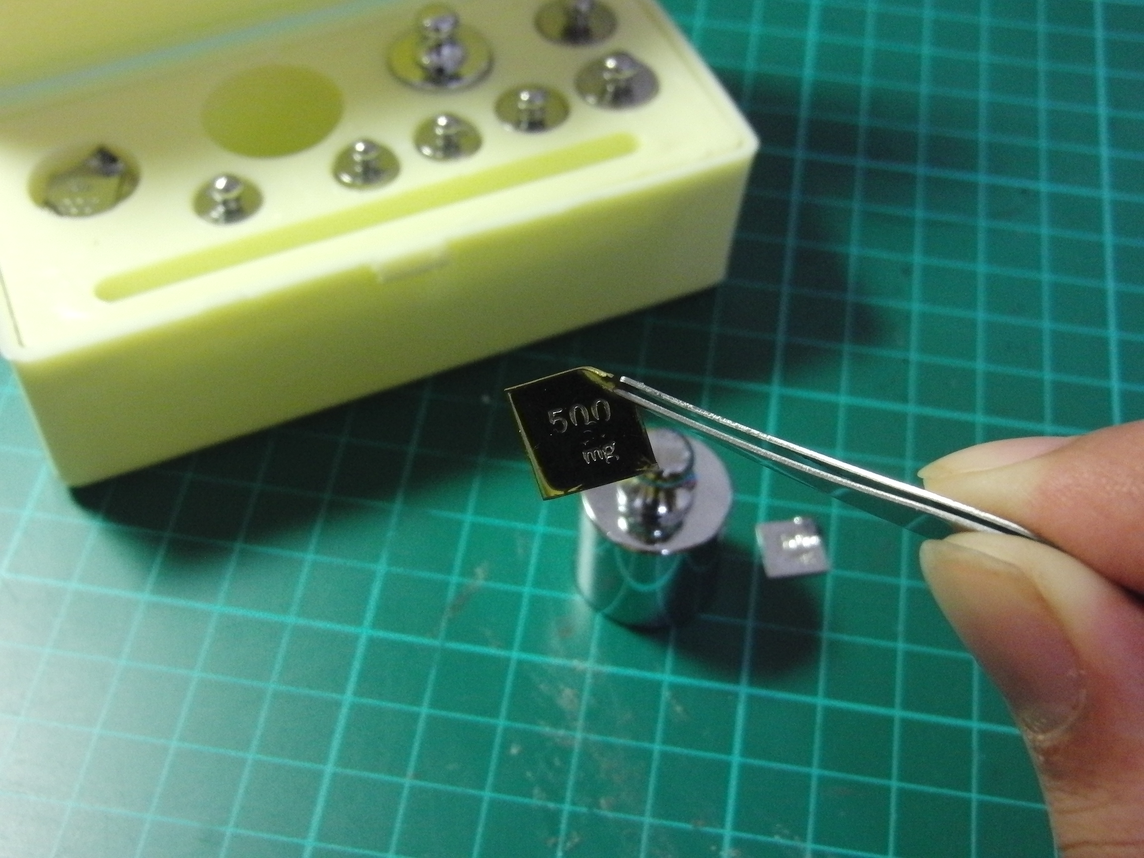 Weight